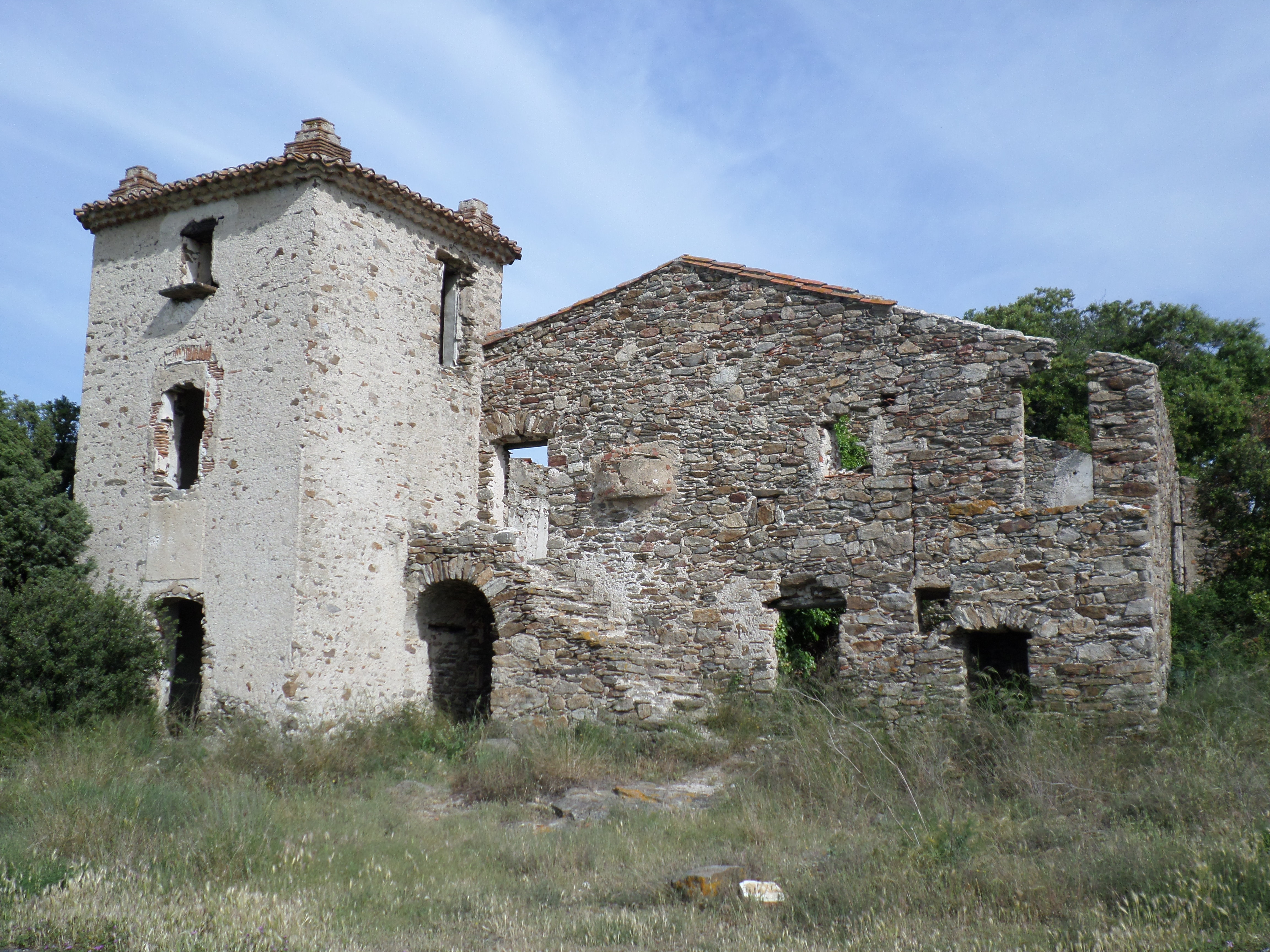 Llébrès (Hamlet in ruins), Bélesta, Pyrénées-Orientales, France